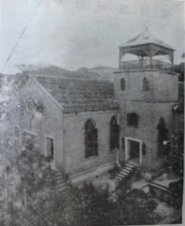 Church of Heavenly Peace in Foochow Mìng-dĕ̤ng-ngṳ̄: Hók-ciŭ Tiĕng-ăng-dòng